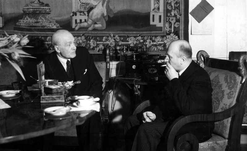 Colonel Adam Koc and President of Poland, Ignacy Mościcki.